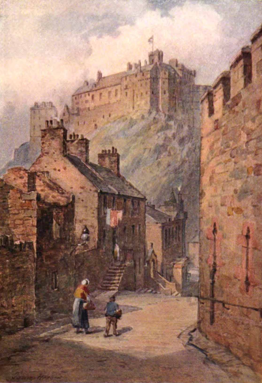 Image (DjVu pg. 180) from Edinburgh (James Heron, illus.)